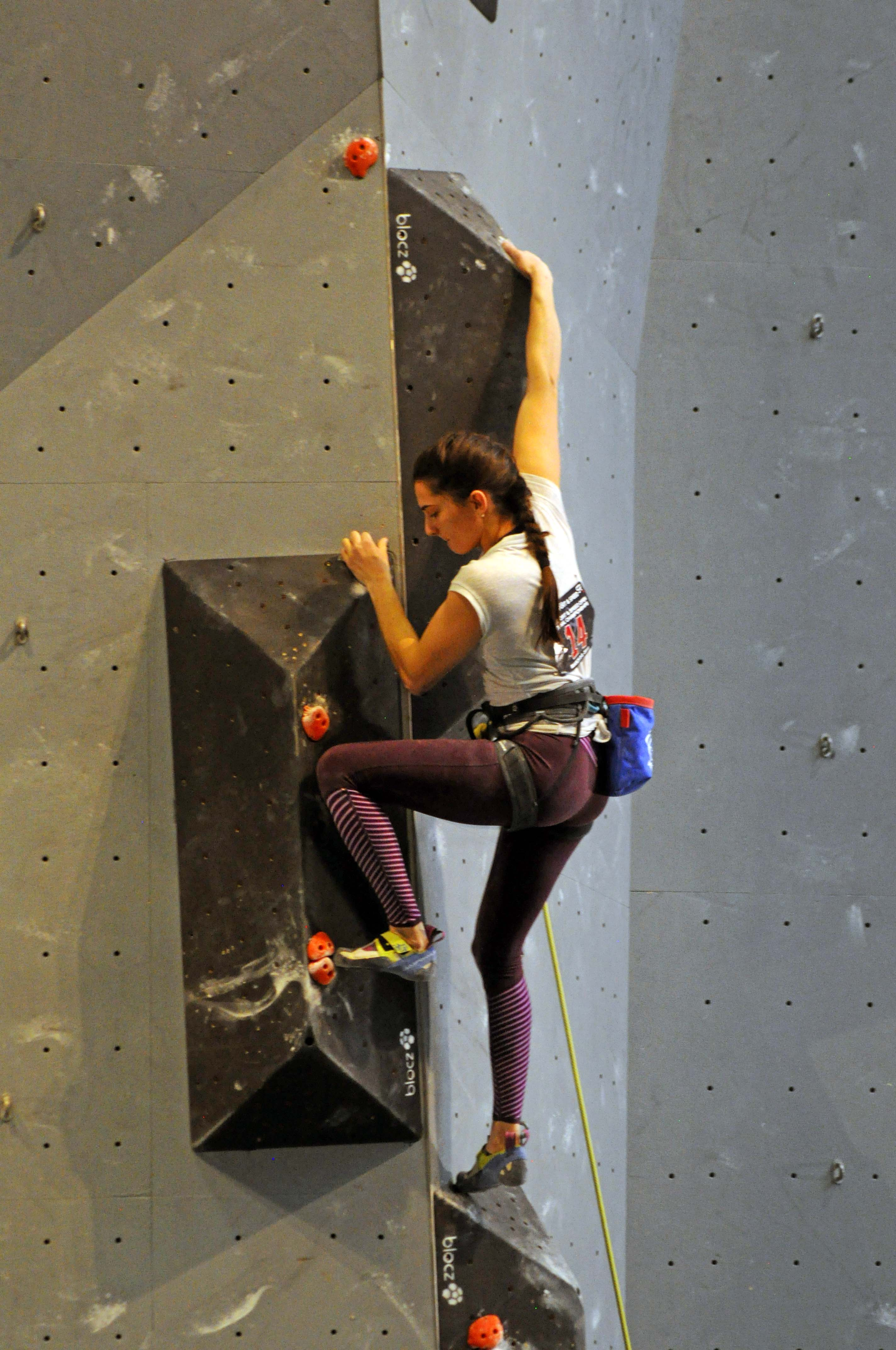 2019 Sport & Speed Open National Championships held on March 8-9, 2019 in Sportrock climbing gym in Alexandria, Virginia. Semifinal climb by Kyra Condie.